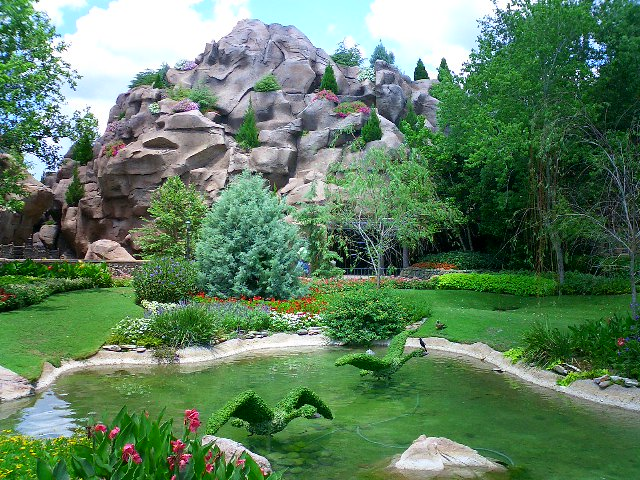 Digital photo taken by Marc Averette